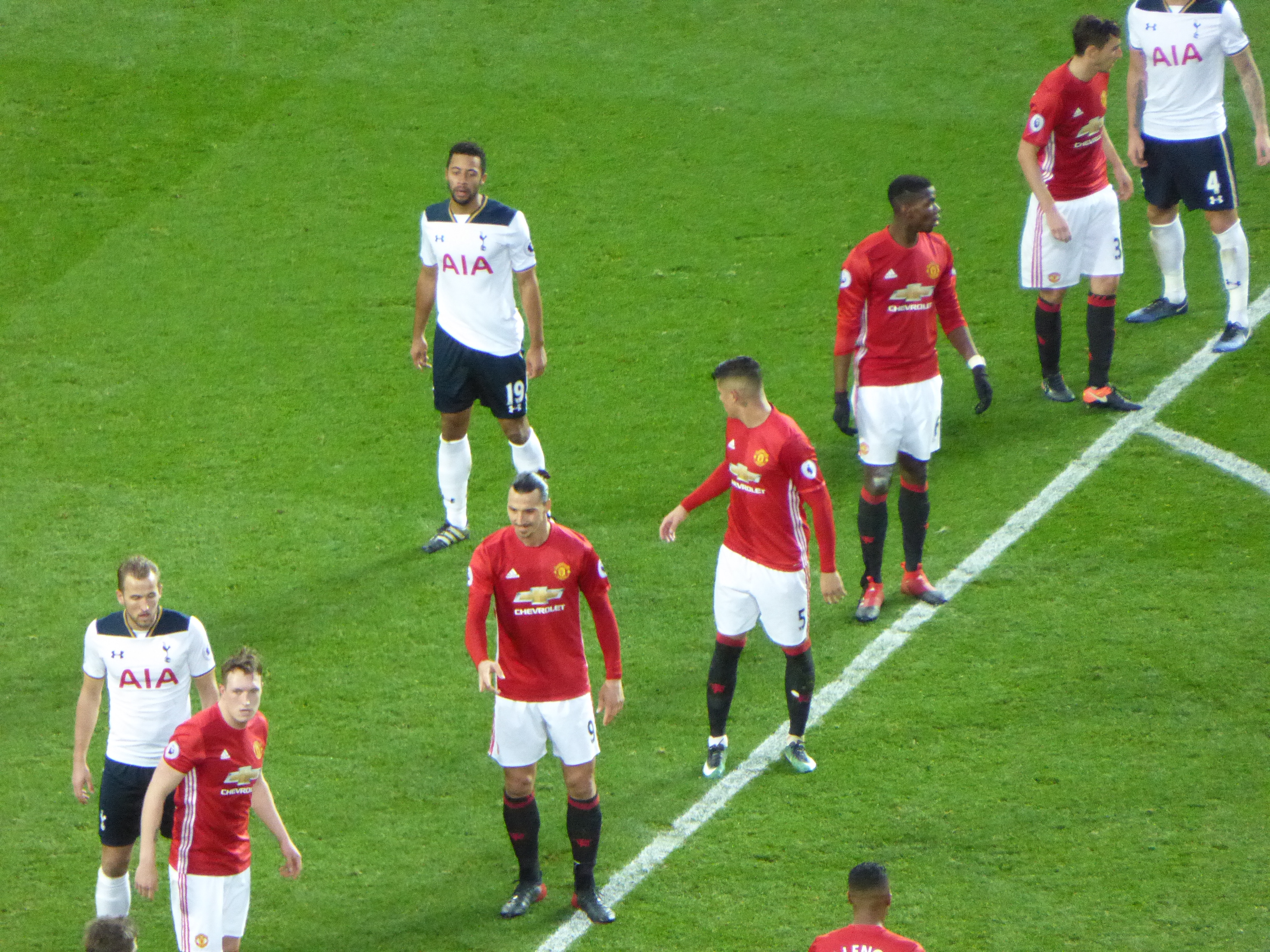 Manchester United v Tottenham Hotspur (1-0), Premier League, Old Trafford, Manchester, Greater Manchester, England, December 2016